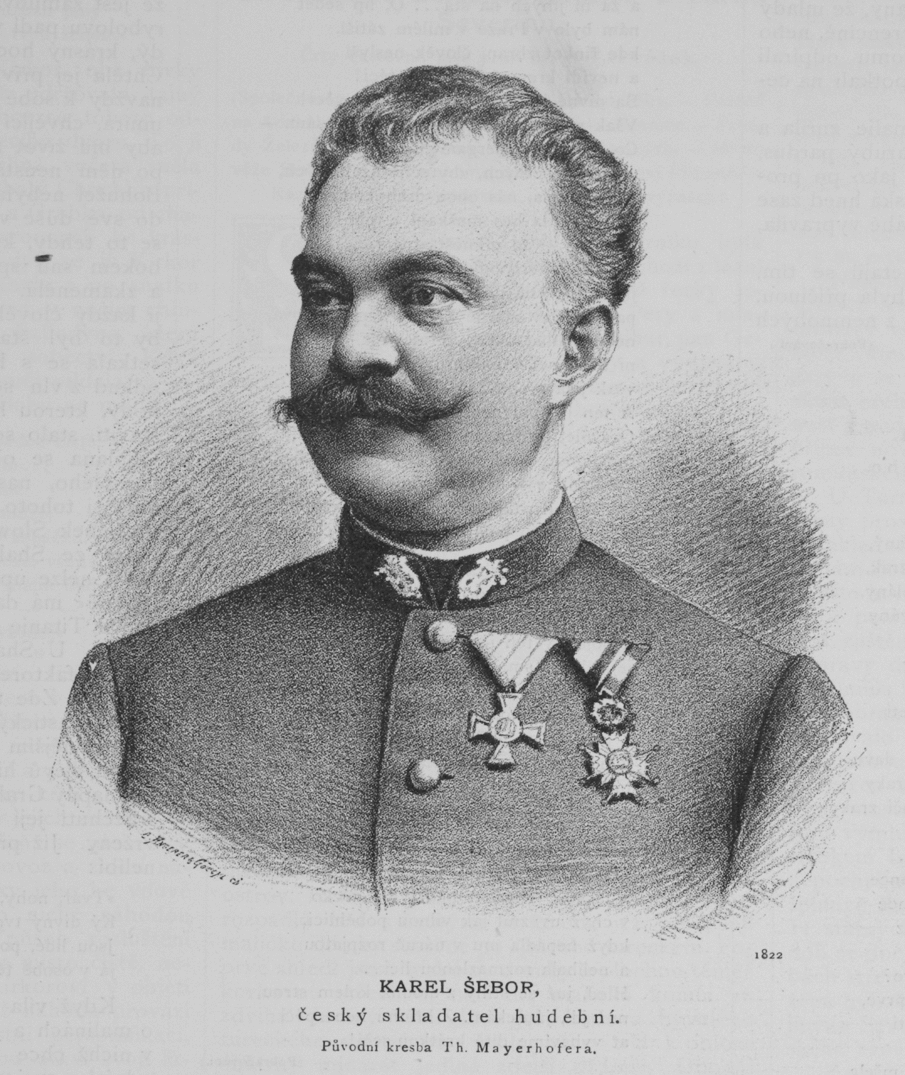 Portrait of Karel Šebor (1843-1903), Czech composer.